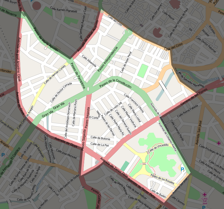 This map may be incomplete, and may contain errors. Don't rely solely on it for navigation.